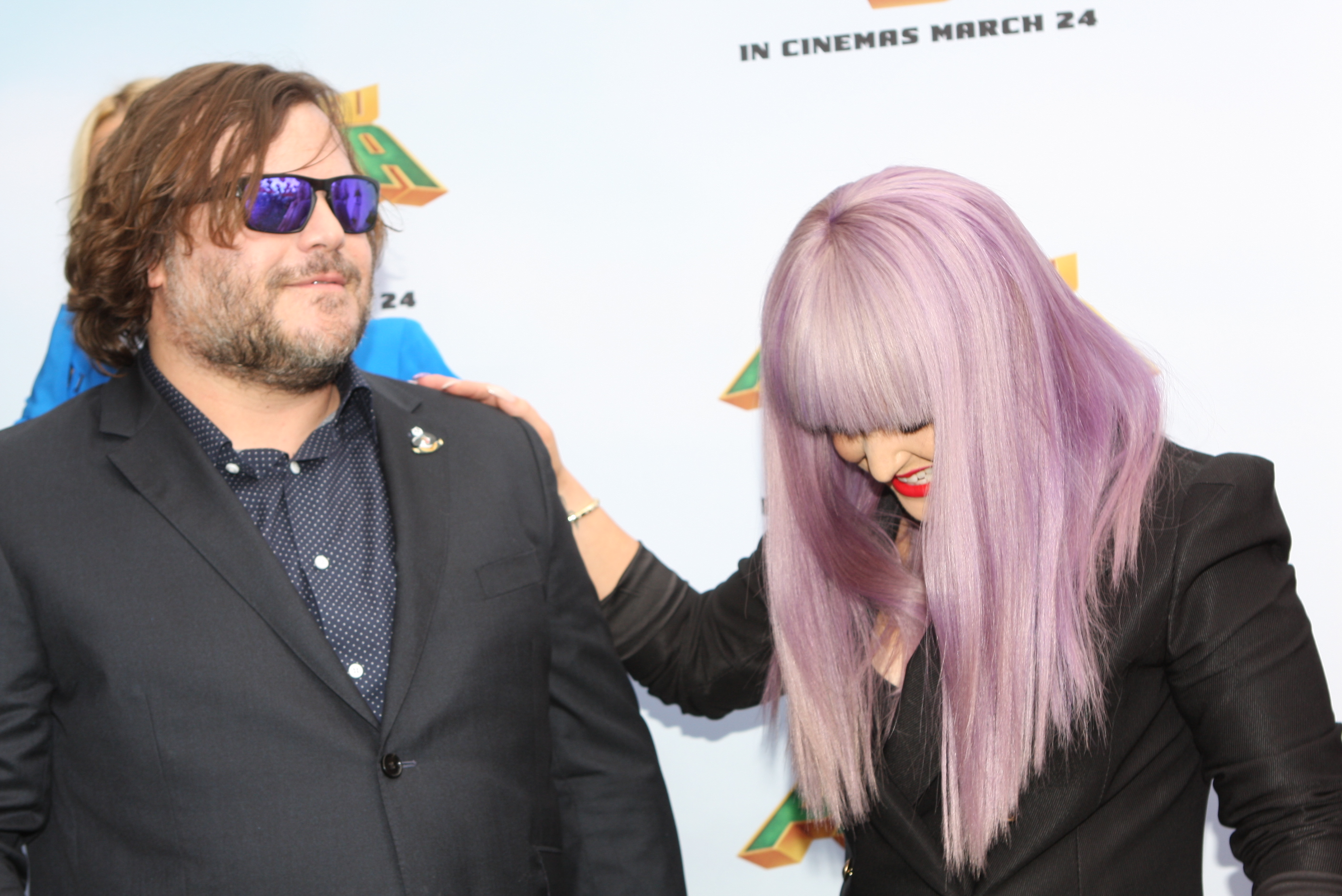 Australias got Talent Judges